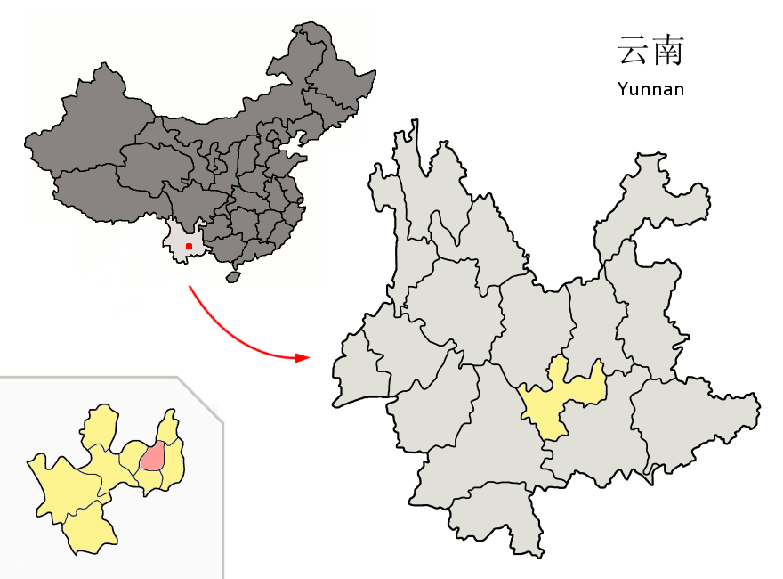 Location of Jiangchuan County (pink) and Yuxi Prefecture (yellow) within Yunnan province of China Map drawn in september 2007 using various sources, mainly : Yunnan province administrative regions GIS data: 1:1M, County level, 1990 Yunnan Counties map from